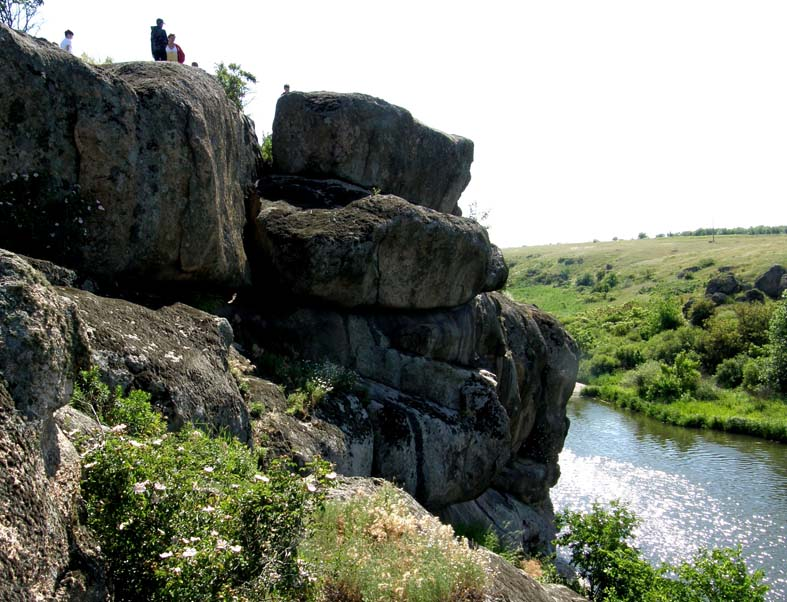 Приингульский РЛП - ландшафт